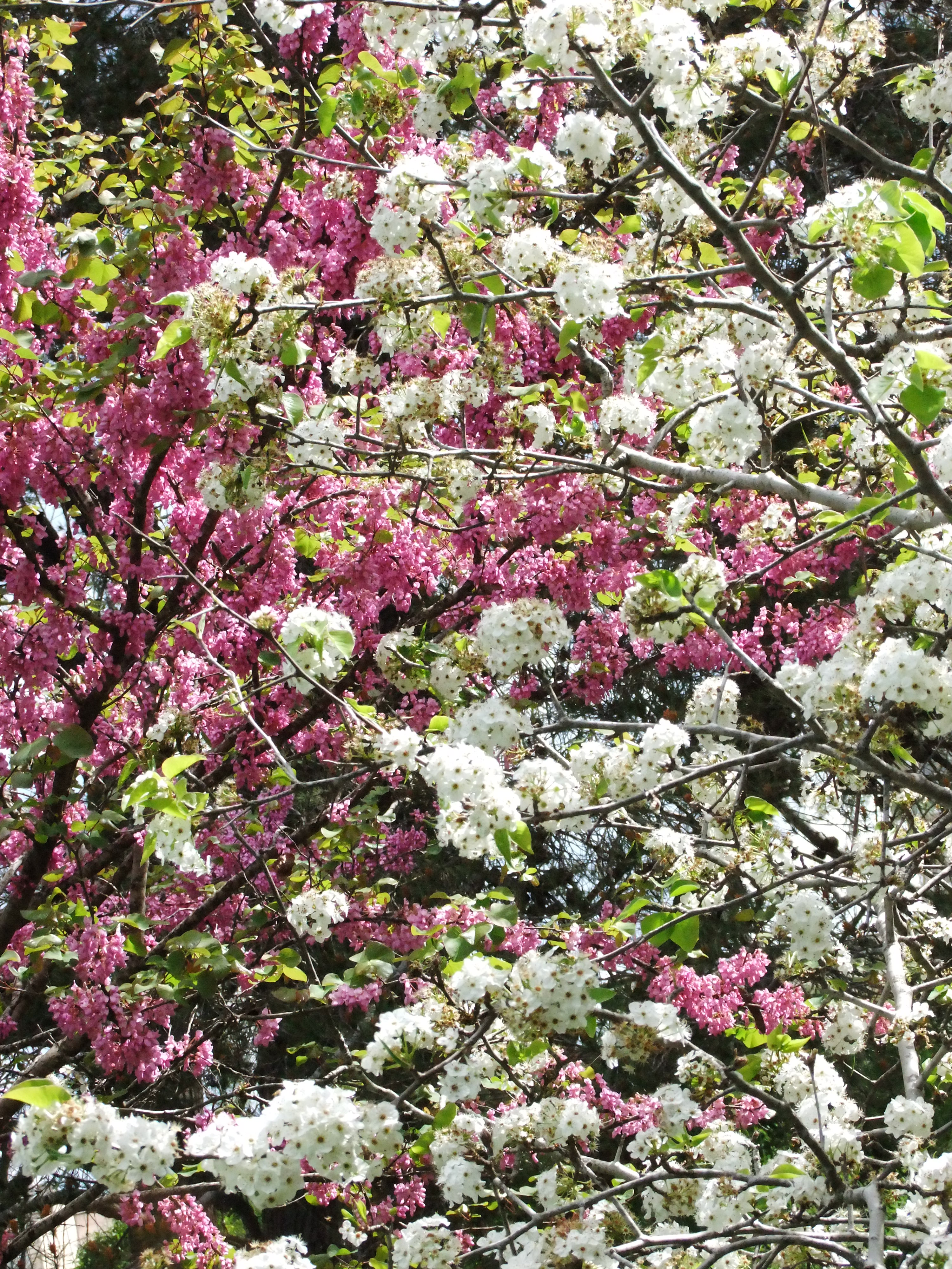 Judas tree & Syrian Pear, Plants of Israel